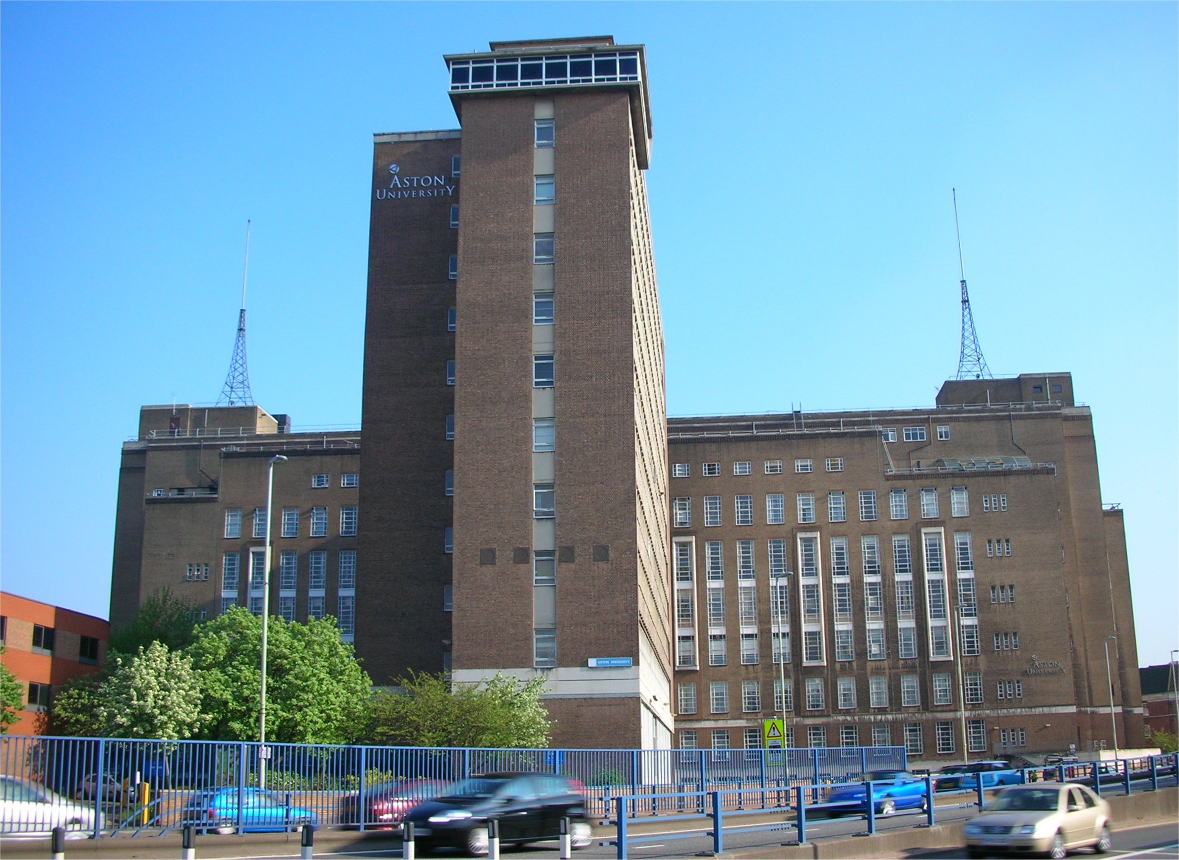 Aston University, one of three universities in Birmingham, England. Photographed by me 3 May 2007. Oosoom